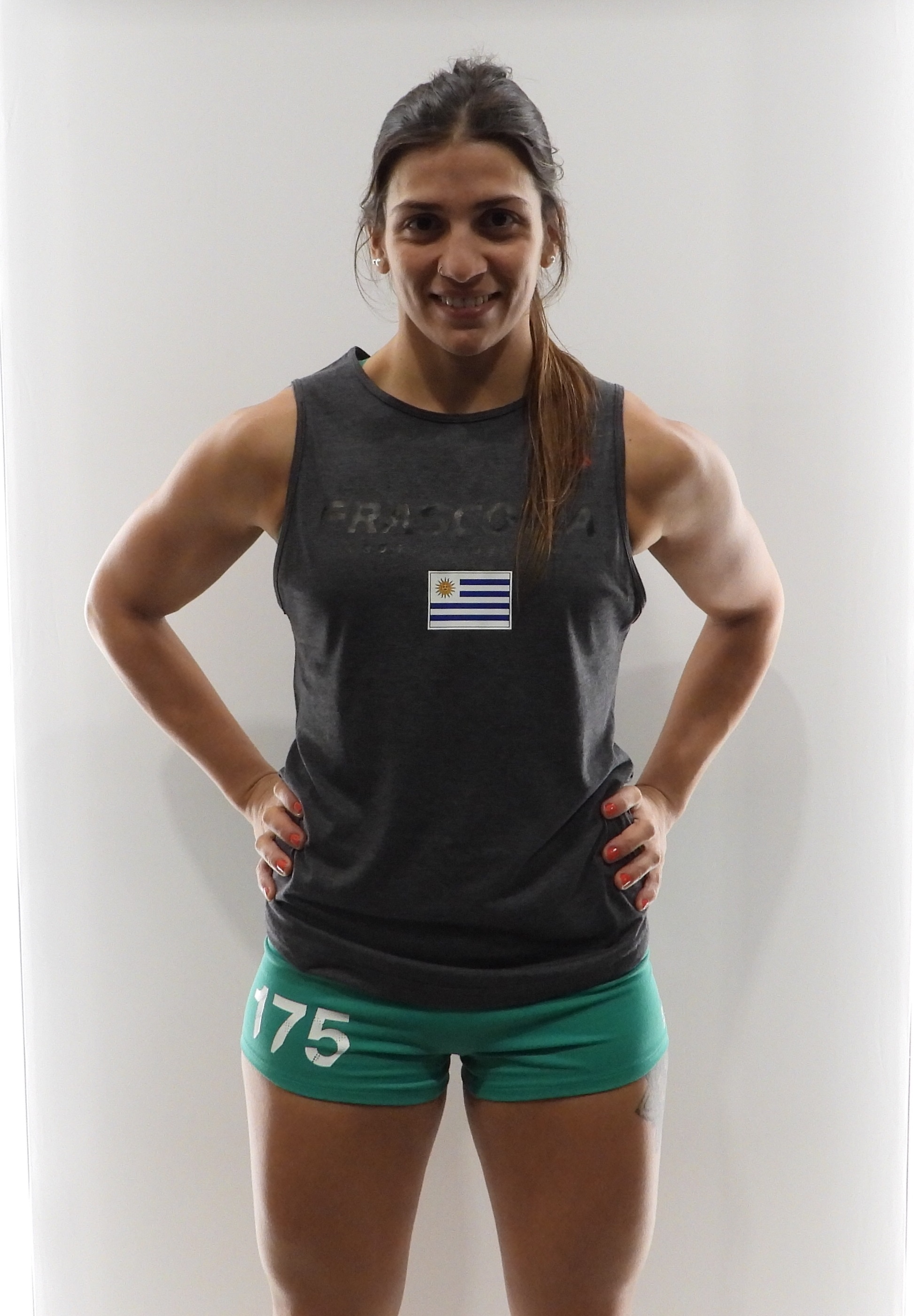 Vico Frascolla, uruguayan CrossFit athlet